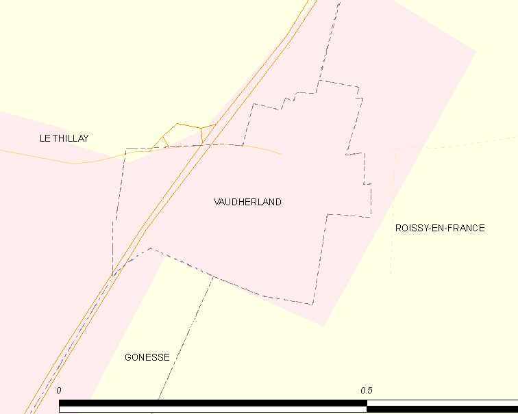 Map of French municipality Vaudherland